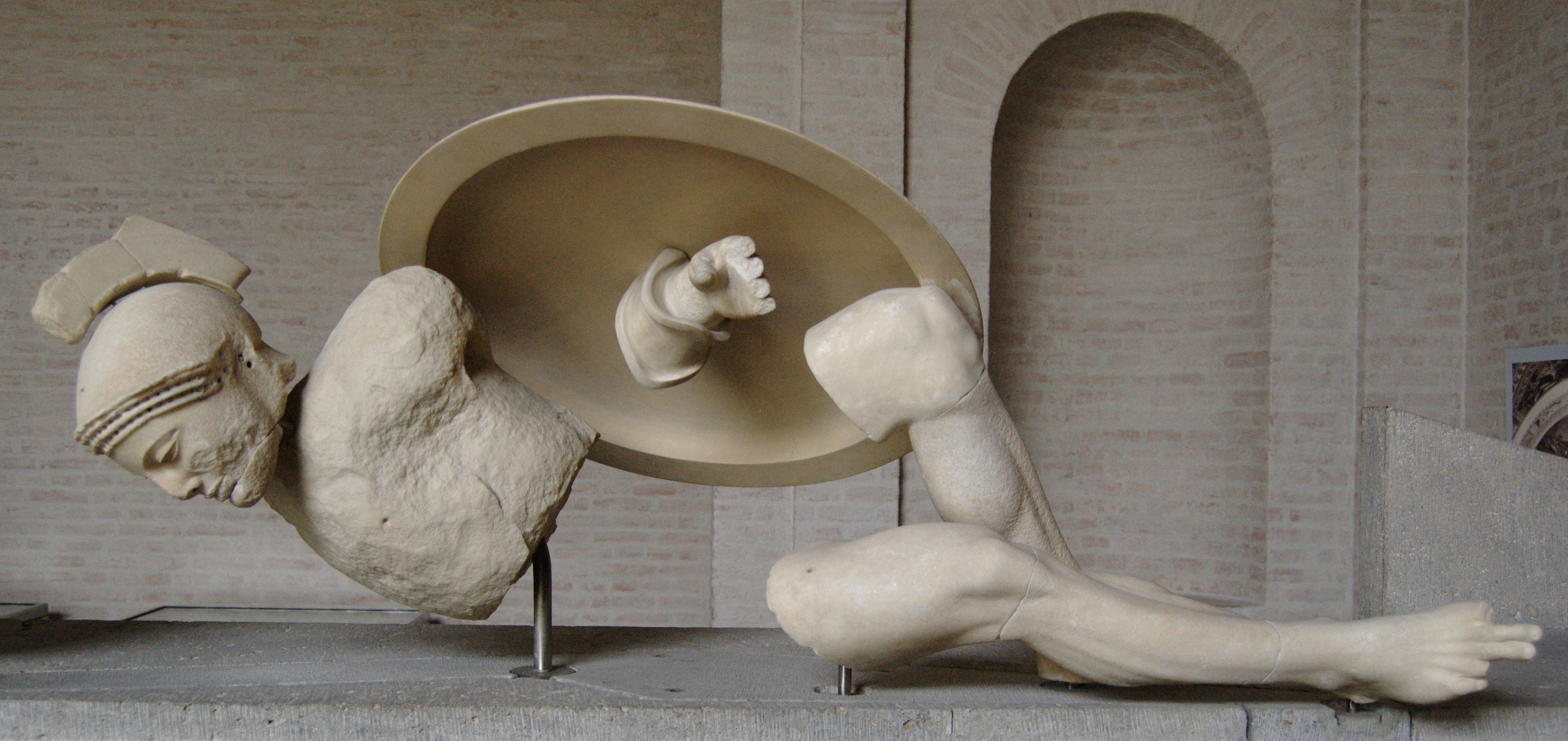 Dying Greek warrior, figure E-VI of the east pediment of the Temple of Aphaia, ca. 485–480 BC.